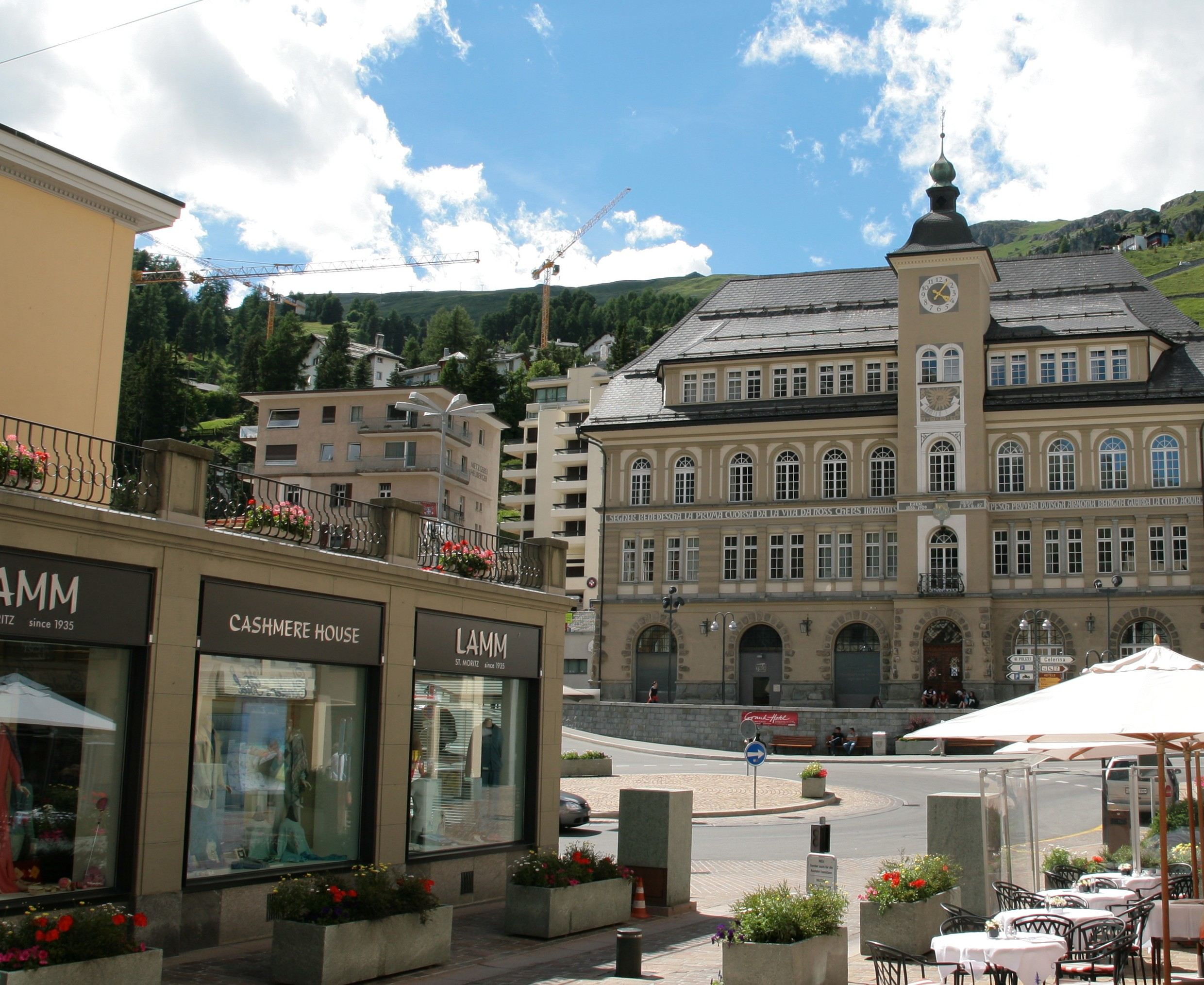 St. Moritz, Graubünden